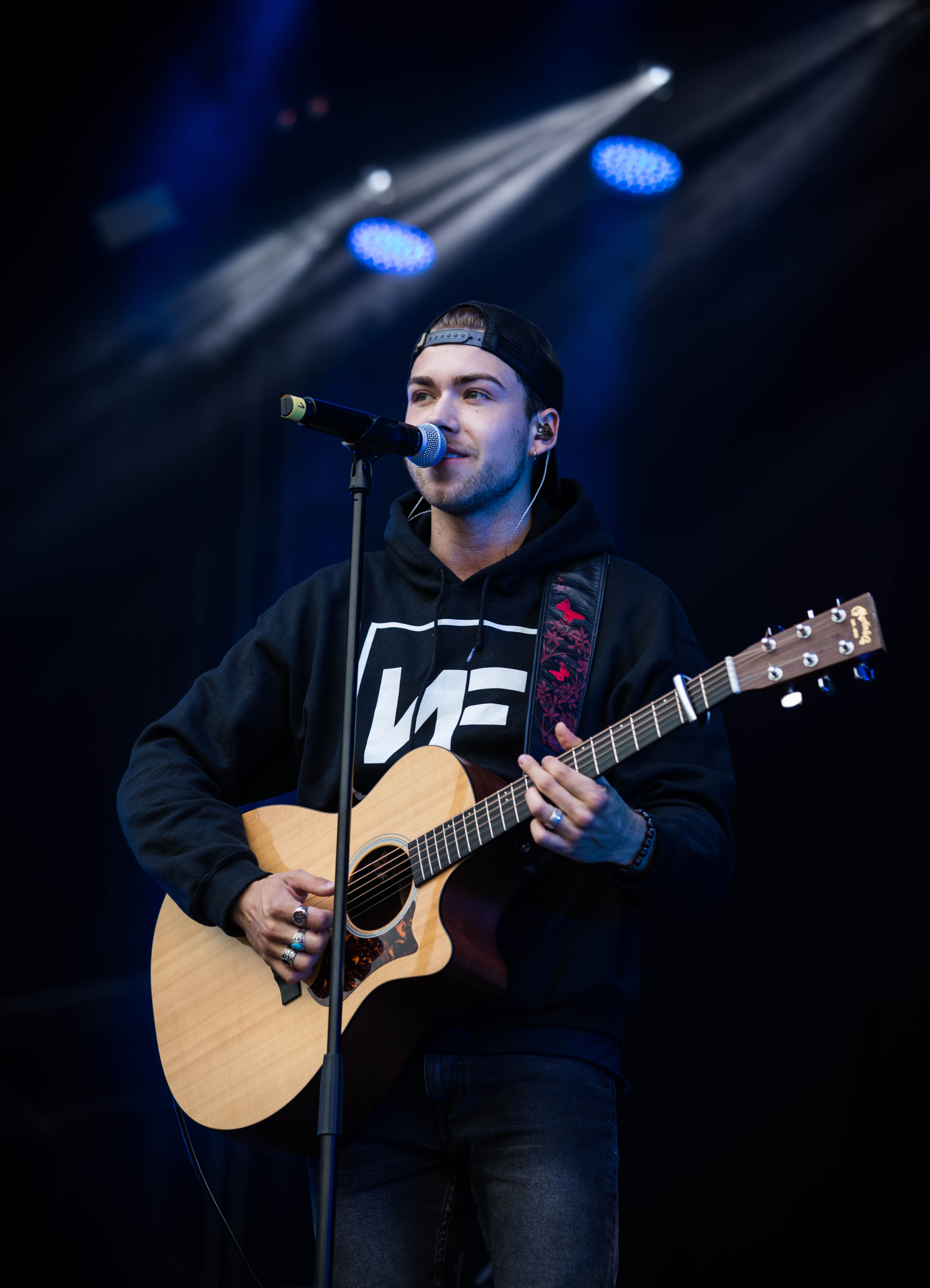 Eli - Rock am Ring 2018